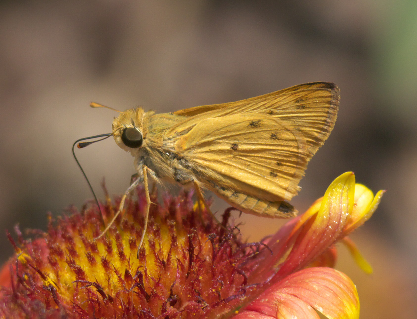 Hylephila phyleus, fiery skipper, ID Confidence: 87